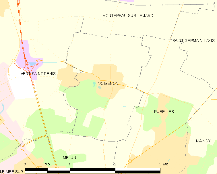 Map of French municipality Voisenon